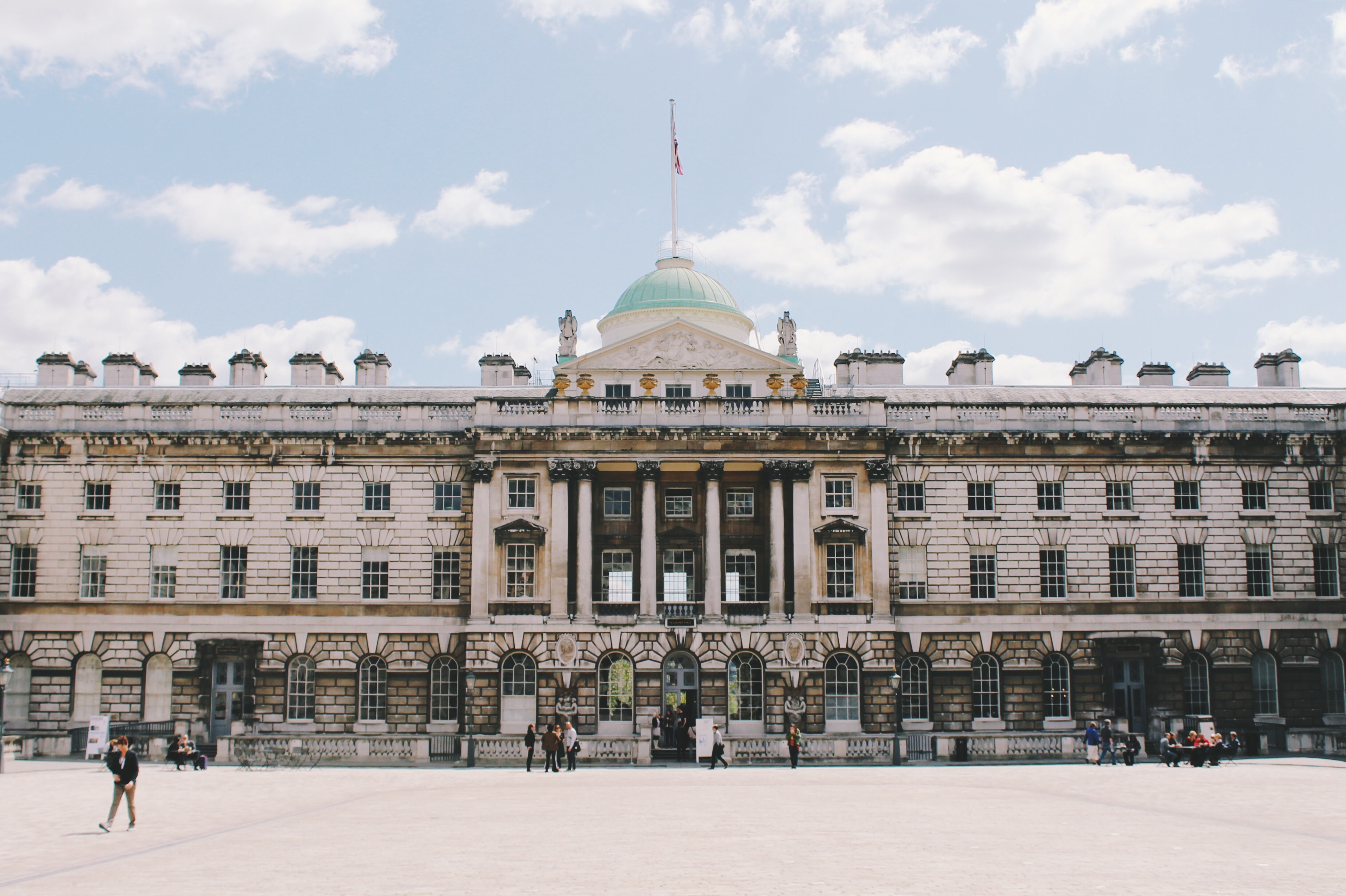 Somerset House, London, United Kingdom